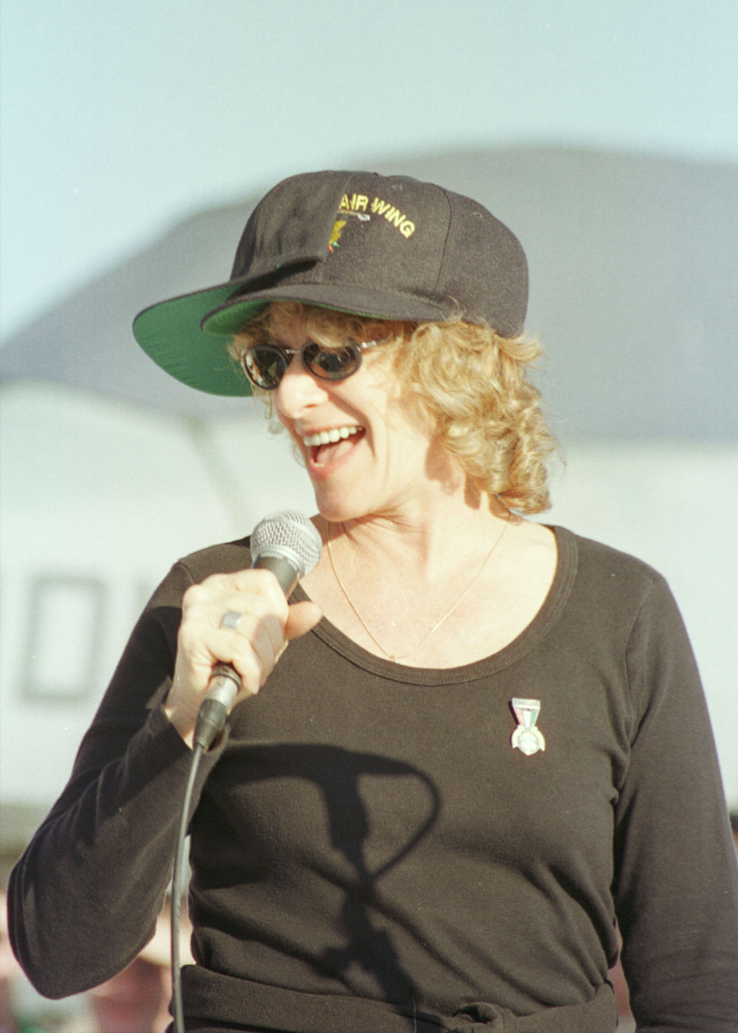 Carole King sings “Locomotion” to the crew of the USS Enterprise during a visit to the ship December 23. King, Mary Chapin Carpenter and David Ball accompanied Defense Secretary William S. Cohen to the Persian Gulf.